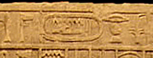 Relief from the tomb of Shery, Old Kingdom of Ancient Egypt, Ashmolean Museum, Oxford